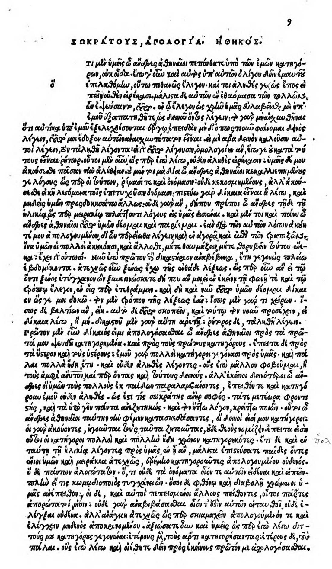 Apologia beginning. Editio princeps, Venice 1513.